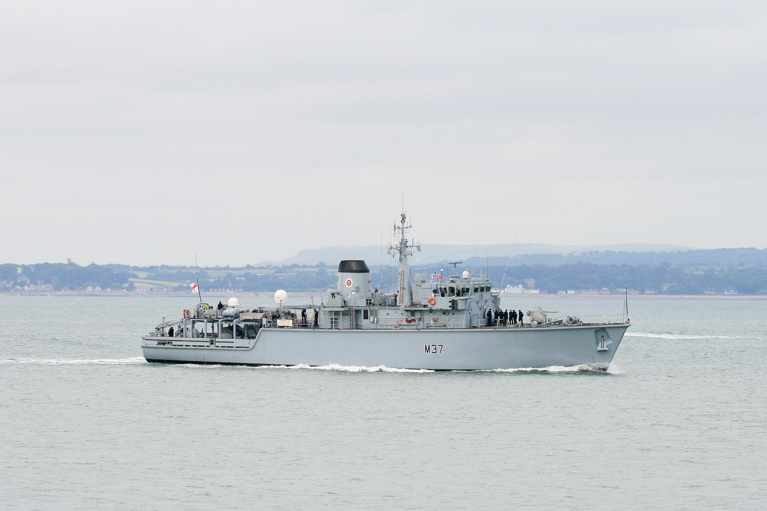 Royal Navy minehunter HMS Chiddingfold entering Portsmouth Naval Base, UK, on 12 July 2013. Wikipedia editors are reminded that the copyright remains with the photographer, and that the terms of the Creative Commons (CC), Attribution (BY), Share Alike (SA) CC-BY-SA-3.0 that allow editors to reuse this image apply to Wikipedia editors also, as they do to other re-users of this image. Breaches of the licence terms are not only unlawful, but are also antisocial, in that breaches discourage photographers from making their images freely available to everyone without payment. Wikipedia re-users are also reminded of the license terms that derivatives of this image should not imply that the adaptation is endorsed or approved by the author or copyright holder. Neither should derivatives be presented as the creation of the author or copyright holder, while clearly stating that the adaptation is a derivative of the original. Attribution online should be in this format Brian Burnell. On the printed page, a simpler form is acceptable - example: "Image: Brian Burnell".